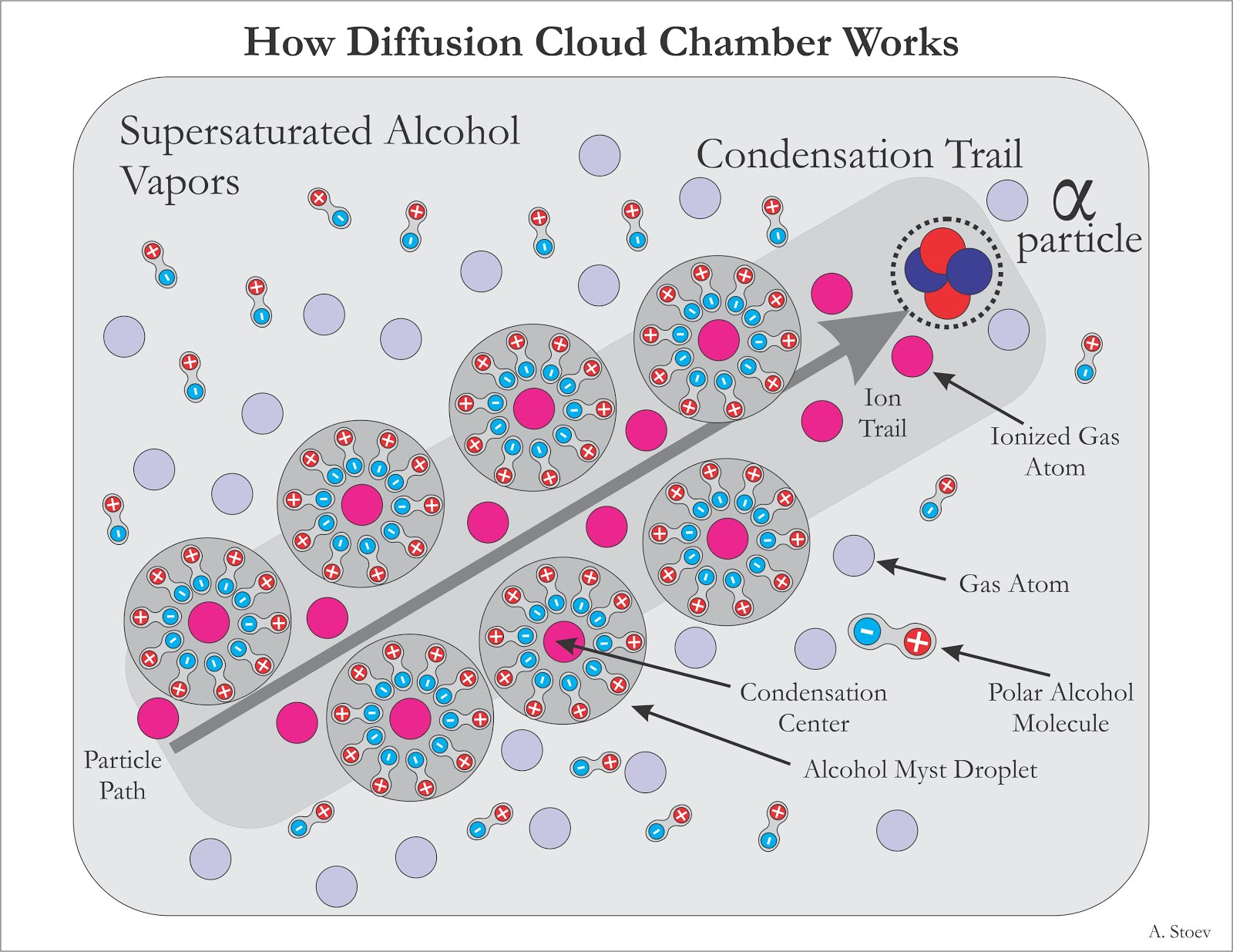 Forming of alcohol condensation trails in Diffusion Cloud Chamber